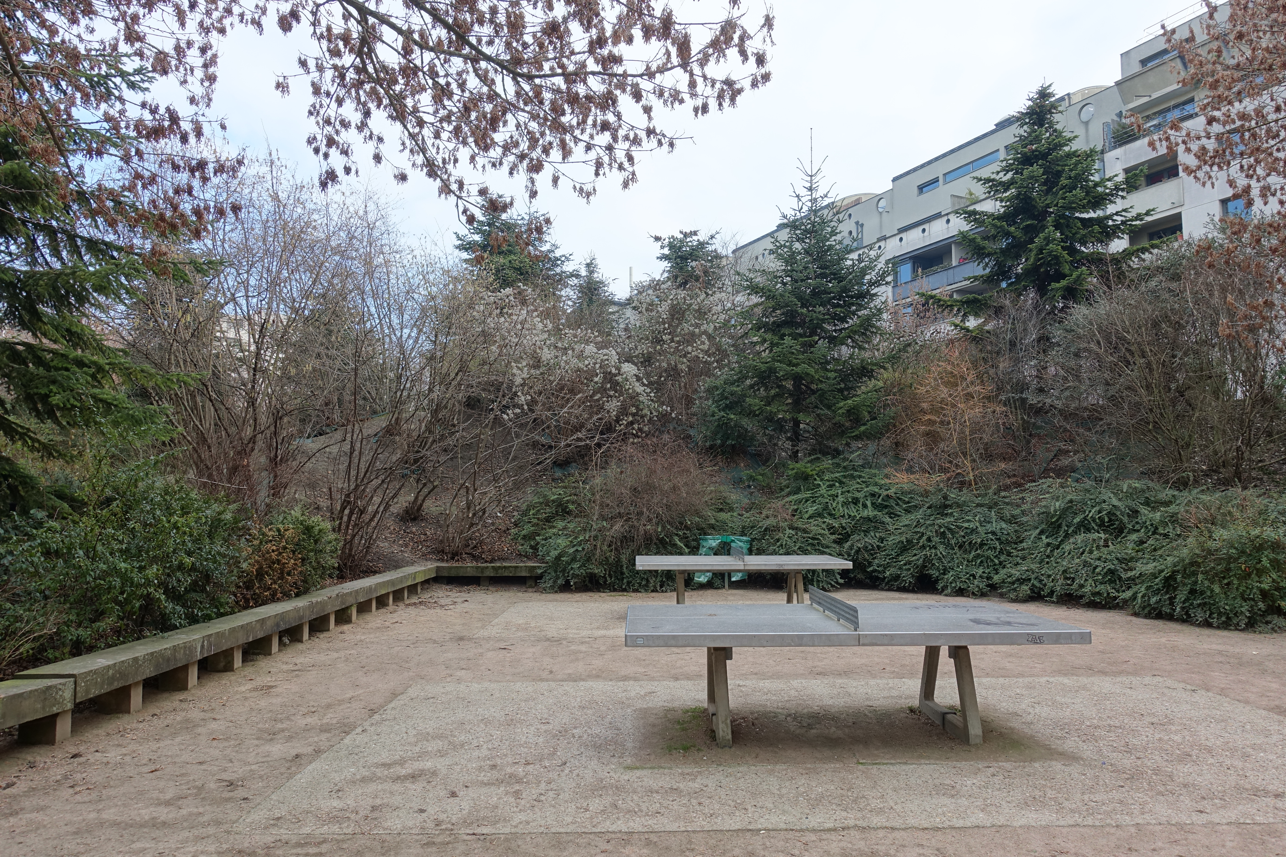 Jardin Damia @ Paris 11 Jardin Damia, 24 rue Robert et Sonia Delaunay, 75011 Paris, France.